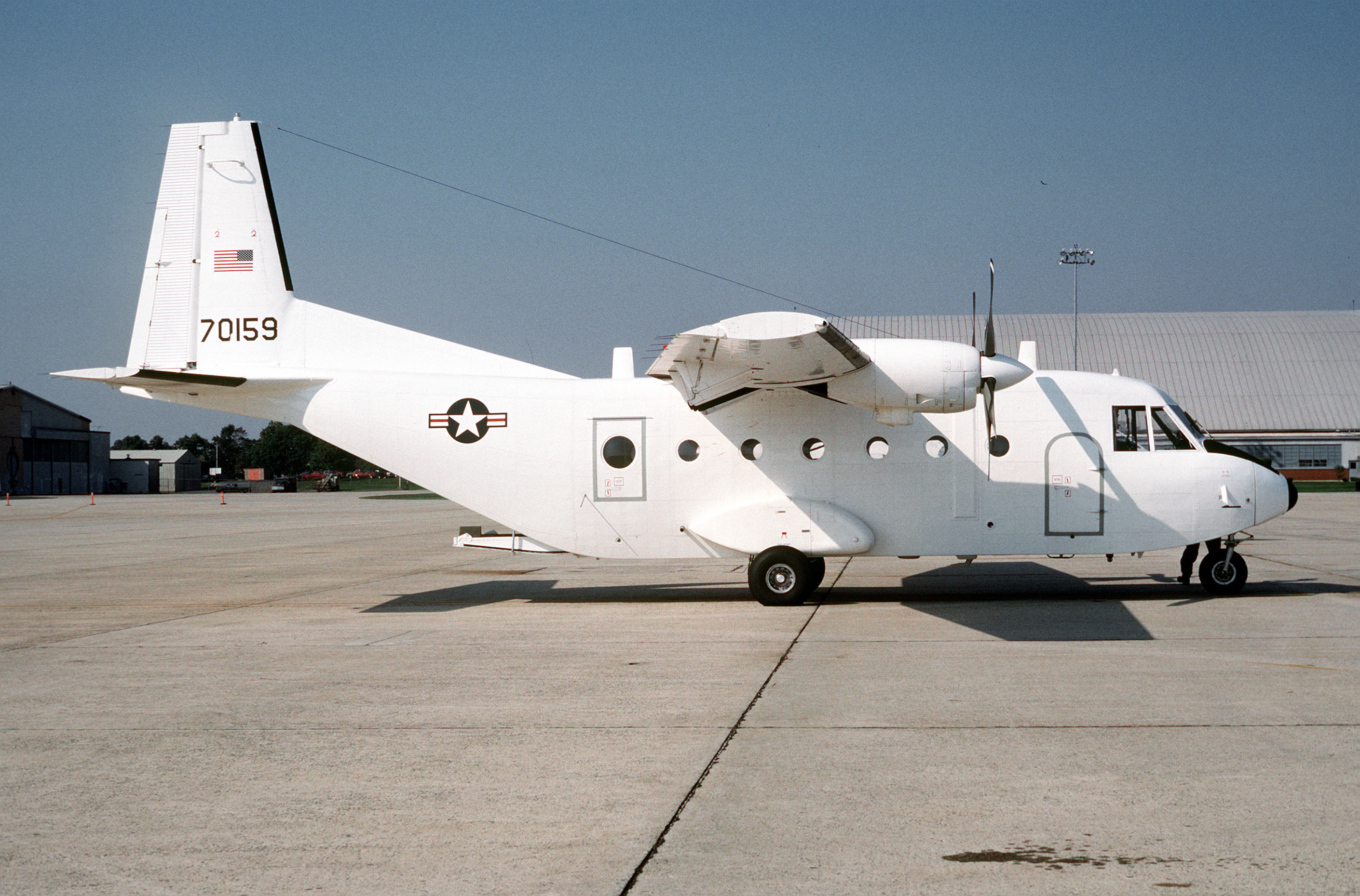 A U.S. Air Force C-41A (Casa C-212-200, s/n 87-0159) light utility aircraft used by U.S. Air Force Special Forces parked on the flight line, Andrews Air Force Base, Maryland (USA), on 19 June 1993.